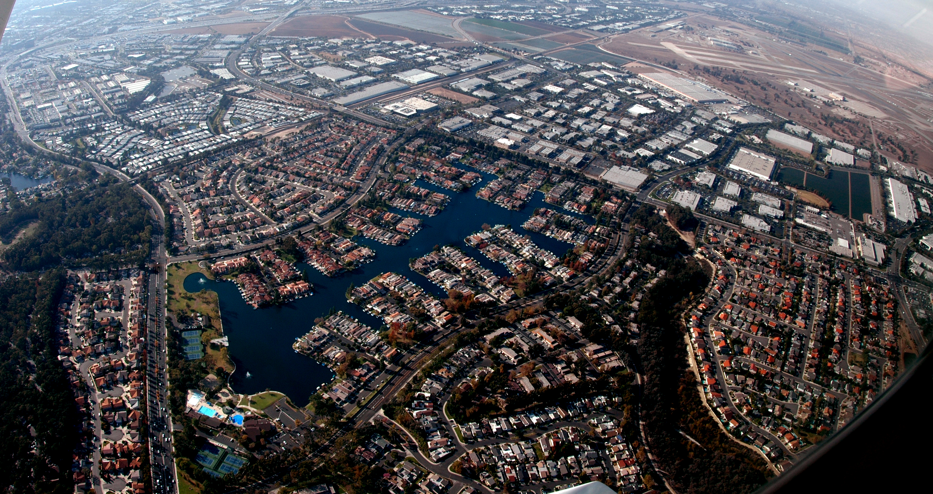 Lake Forest CA photo D Ramey Logan if used outside of Wiki please provide photographer credit: D Ramey Logan